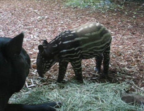 Baby Malayan Tapir, one month old, at the Woodland Park Zoo in Seattle. The zookeepers have temporarily named her Princess. She's still got her baby spots and stripes, but her white saddle is already coming in. Her mother, Kelang, is lying down next to her.